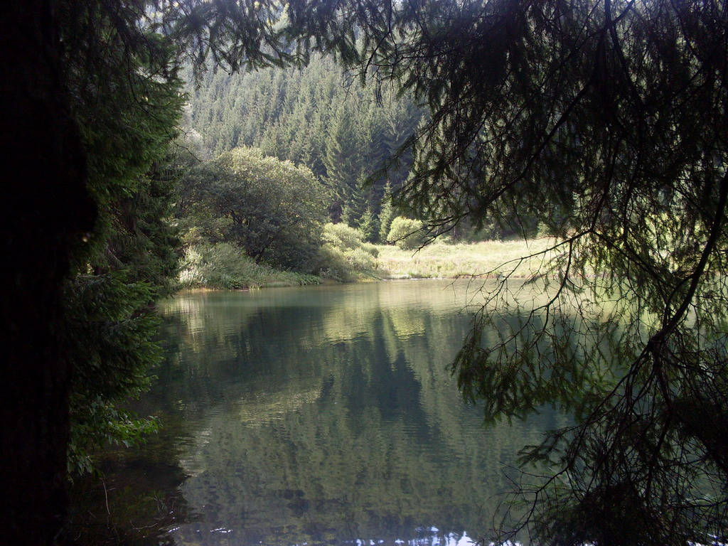 Čutkovo in Ružomberok (Slovakia)